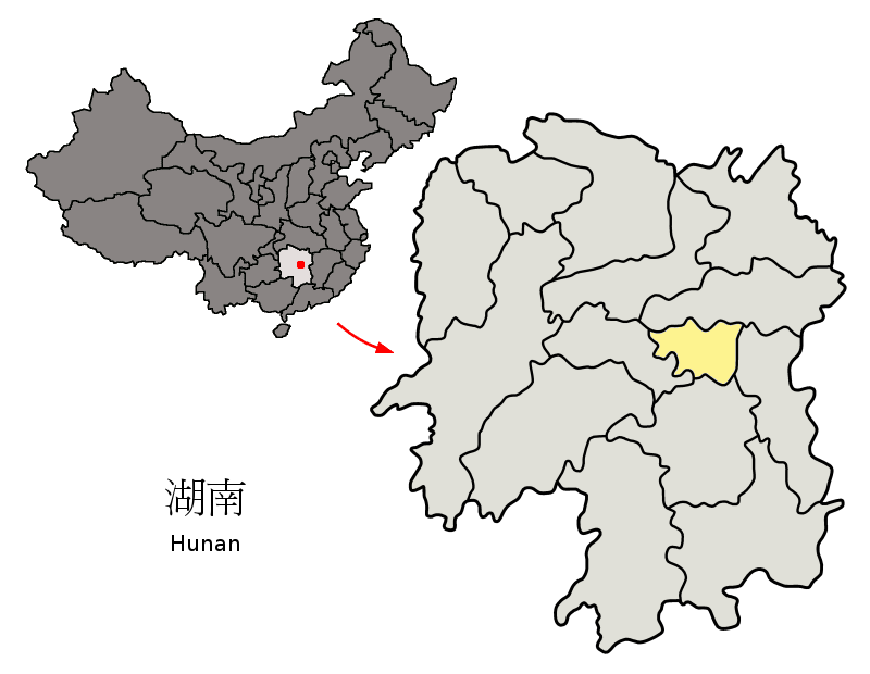 Location of Xiangtan Prefecture (yellow) within Hunan Province of China Map drawn in december 2007 using various sources, mainly : Hunan Province administrative regions GIS data: 1:1M, County level, 1990 Hunan Counties map from